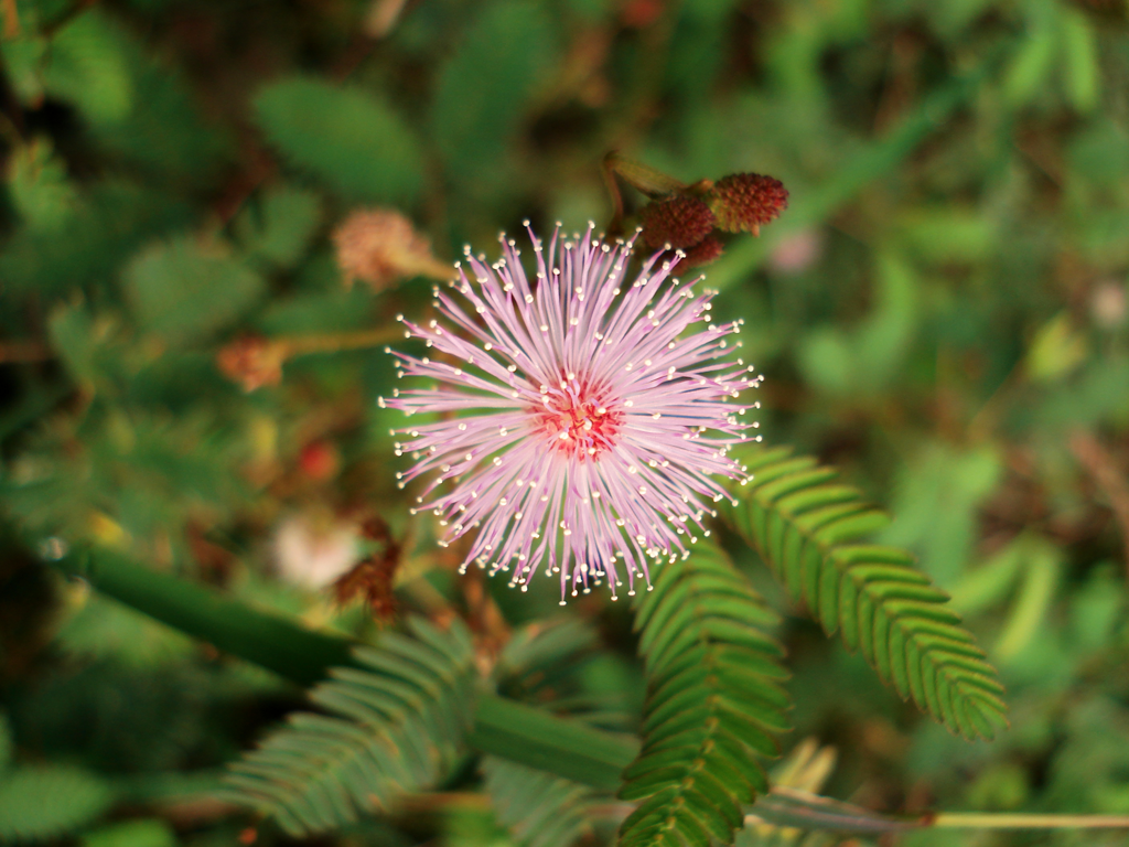 Flower of Mimosa pudica, commonly known as the Touch-me-not plant